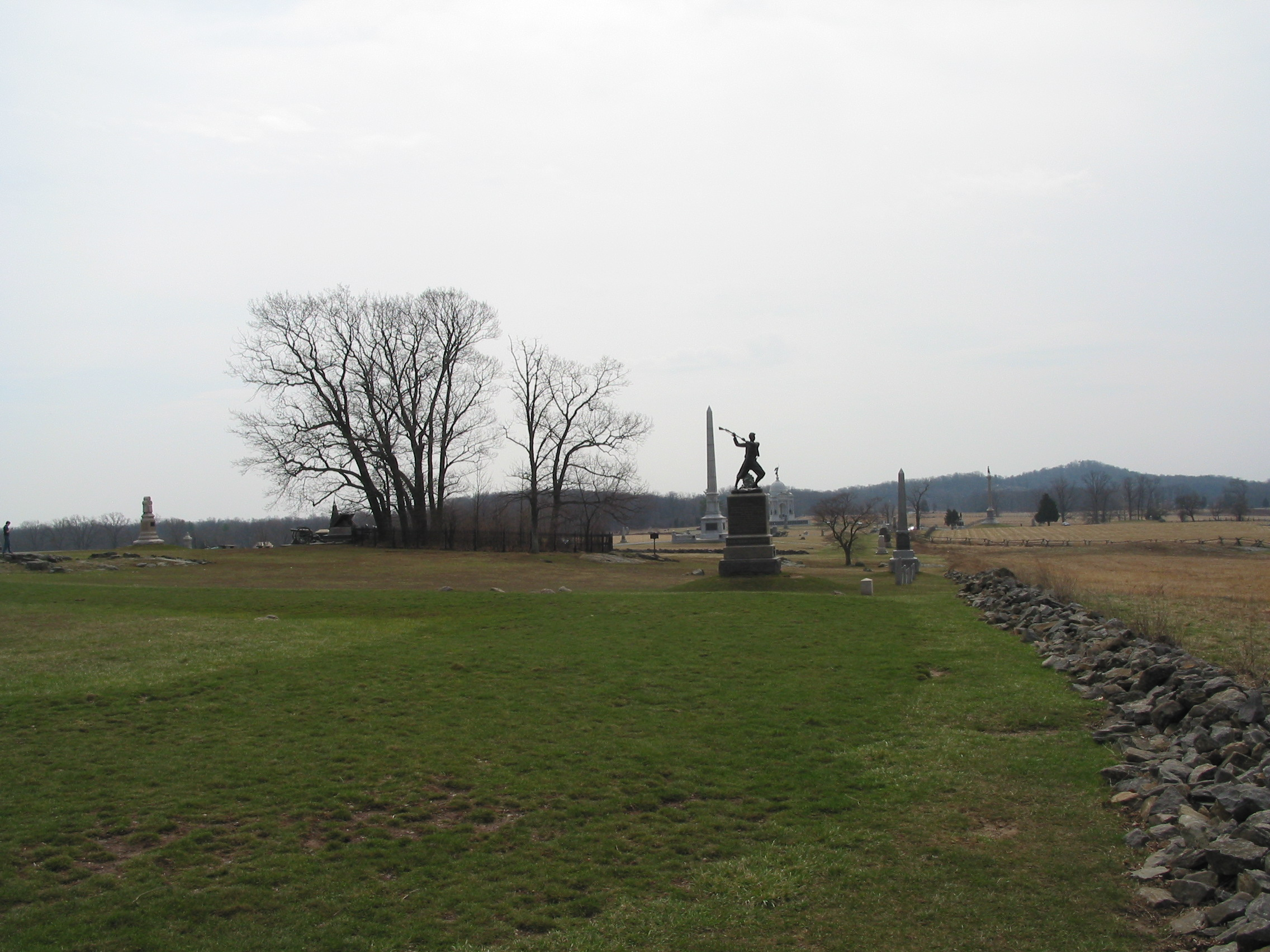 To the left (east) of The Angle stone wall was the farthest advances of the units of Longstreet's assault during the 1863 Battle of Gettysburg.[1] Uploaded by the photographer. Taken March 27, 2007.